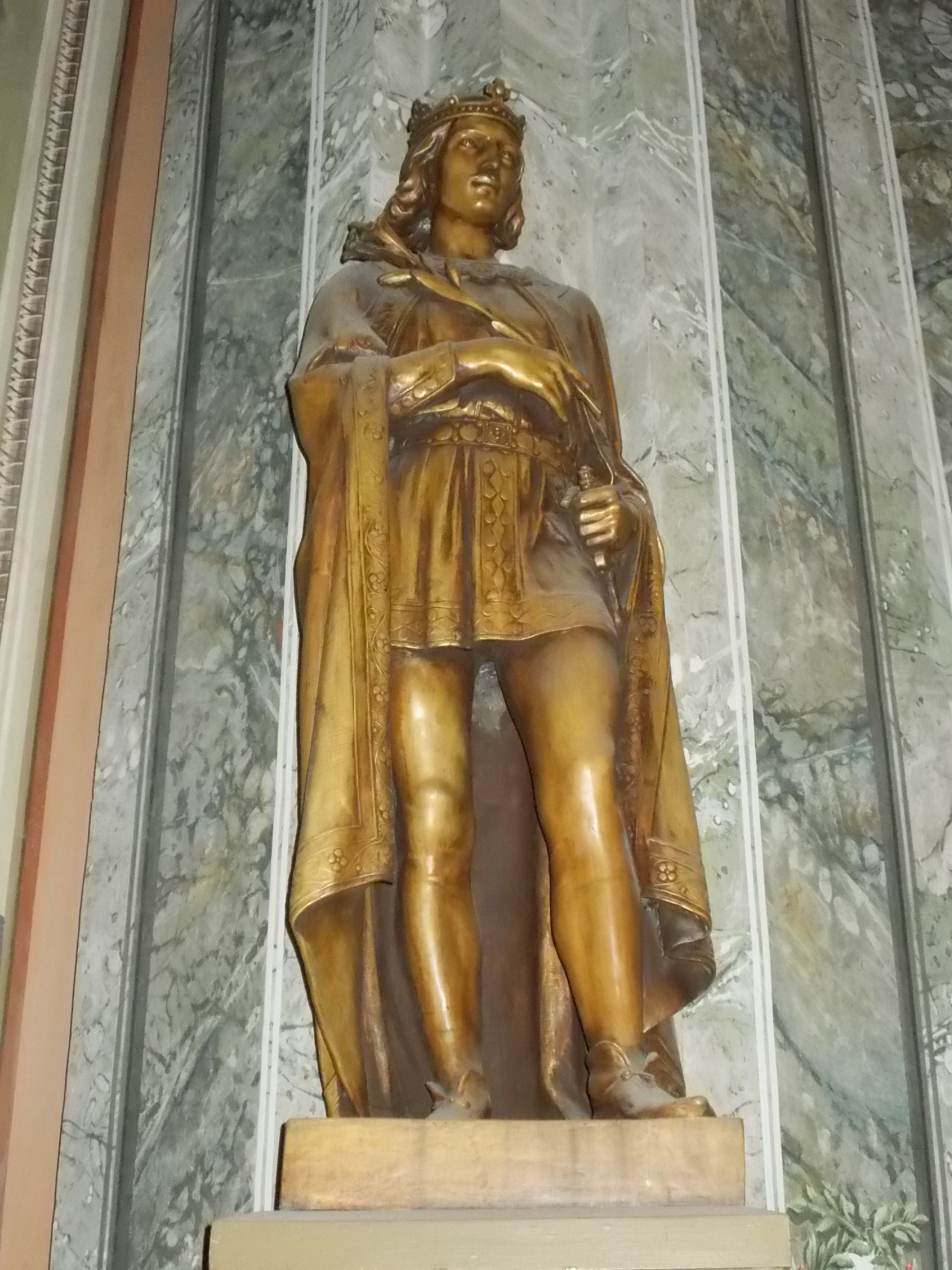 Ascension of Christ Roman Catholic church. Built to replace a destroyed church in 1805. Renewed in 1888. After fire restored in 1928. The biggest single nave church in Middle Europe(?). - King Béla Square, Szekszárd, Tolna County, Hungary.